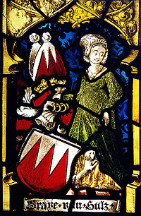 Ursula von Sulz